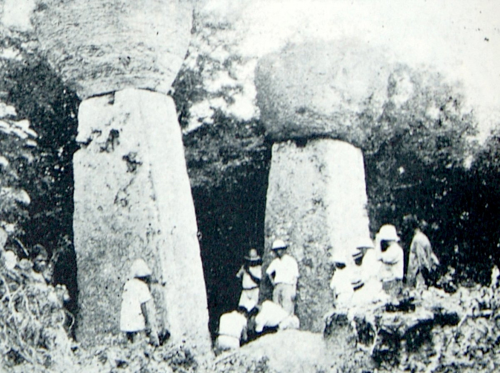 Guma Taga (House of Taga) ruins on the island of Tinian in the Marianas, Micronesia, Oceania. The two pillars/columns are called latte (pronounced lætdi/læ'di) stones, a common architectural element of prehistoric structures in the Mariana Islands, upon which elevated buildings were built. Taga was a legendary Chamoru chief, and these ruins would have been the largest known structure of their kind in the archipelago. Earthquakes had toppled most of the latte stones at this site by the time this photo was taken; an earthquake in 1902 toppled the latte stone seen on the left, and now only the one on the right remains standing. The exact date that this picture was shot is unknown; it is found in the collection of the Museum of Guam.